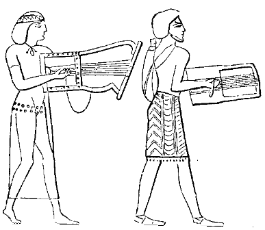 An illustration from the Encyclopaedia Biblica, a 1903 publication which is now in the public domain. Fig. 14 for article "Music". Image of an Egyptian Lyre, on a relief showing peaceful immigration into Egypt by the Aamu Canaanites - which later became the Hyksos.